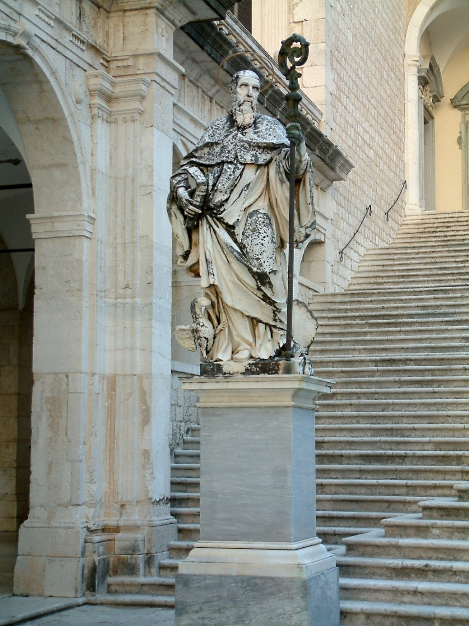 Statue of Benedict of Nursia, Monte Cassino Abey